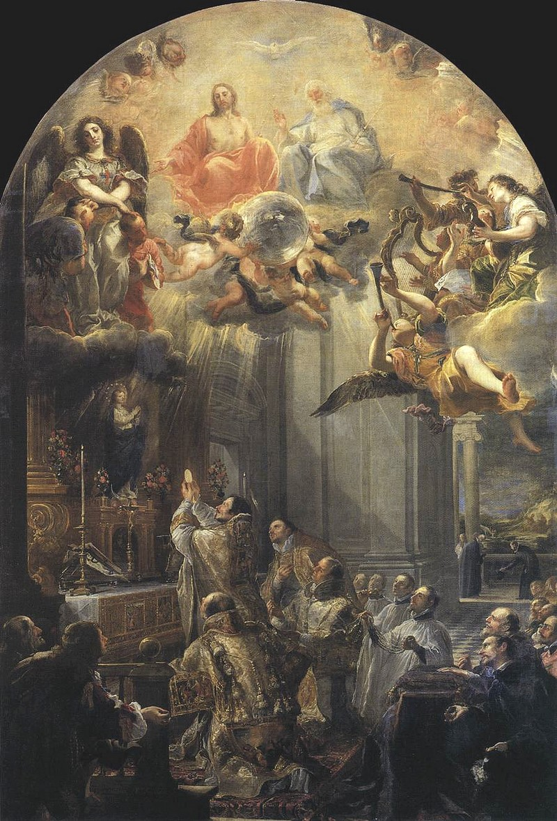 Fundación de la Orden de los Trinitarios / Mass of St John of Matha; The Foundation Mass of the Order of Trinitarians / La Messe de fondation de l'ordre des Trinitaires. It should be noted that the actual vision of St. John de Matha was of Christ and two captives not an angel as has been reflected at times erroneously in some works of art. See the Mosaic St. John de Matha had installed in Rome at St. Thomas in Formis for an account of the vision.